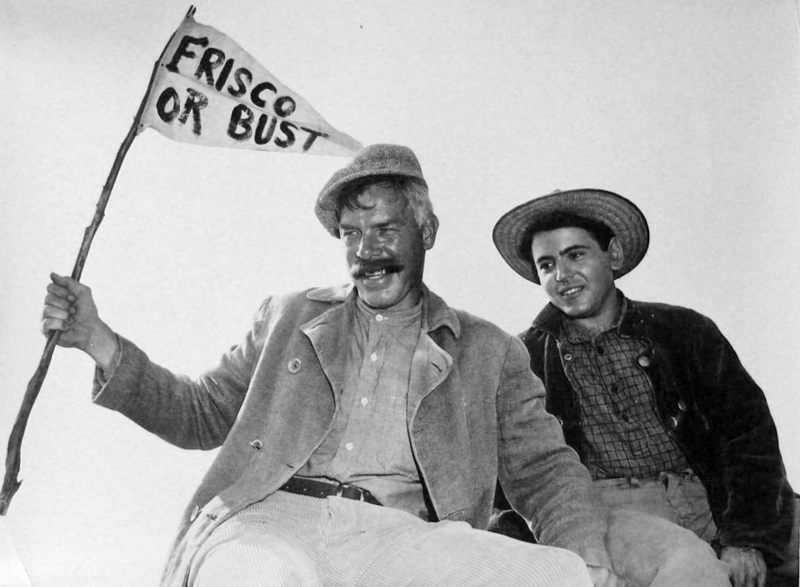 Photo from the television program The Great Adventure. Pictured are Lee Marvin and Walter Koenig in the episode Six Wagons to the Sea.